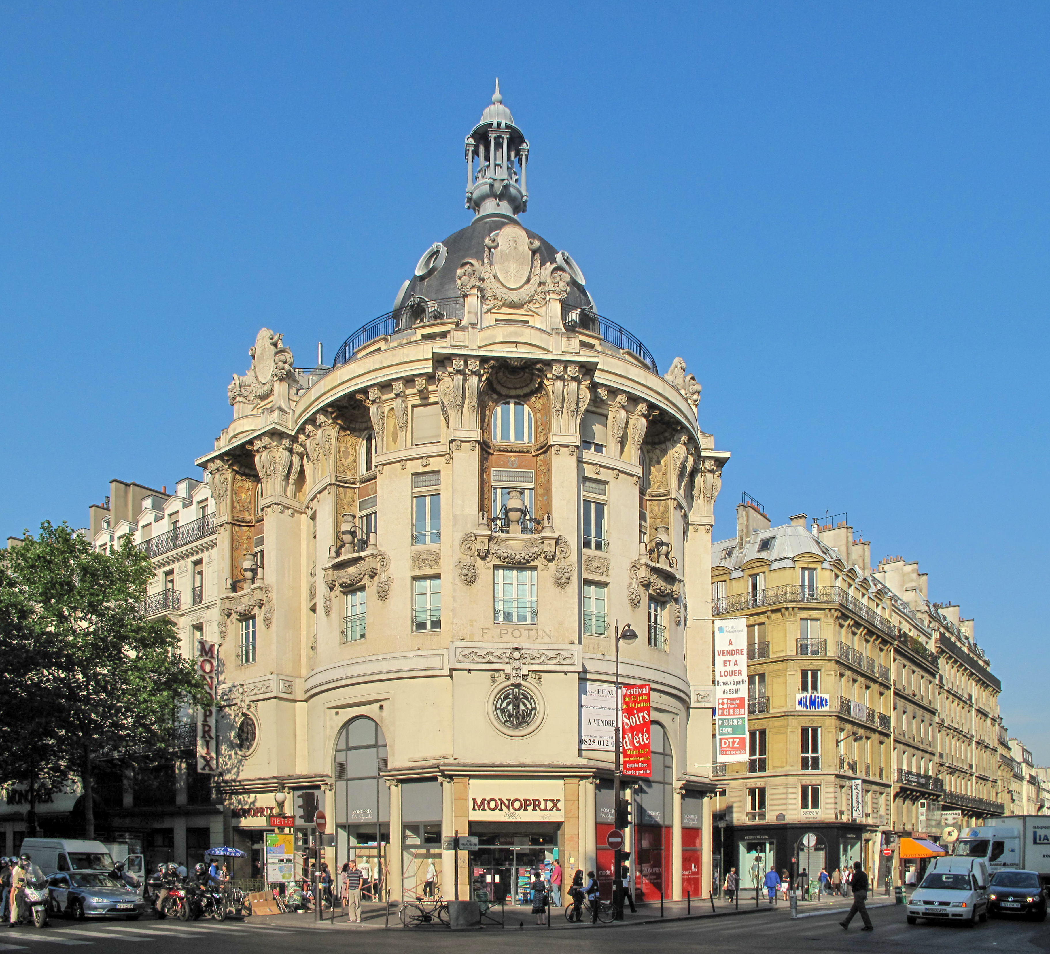 Head offices of the deceased chain store Félix Potin : Junction rue Réaumur and boulevard de Sébastopol, Paris 2nd arr.